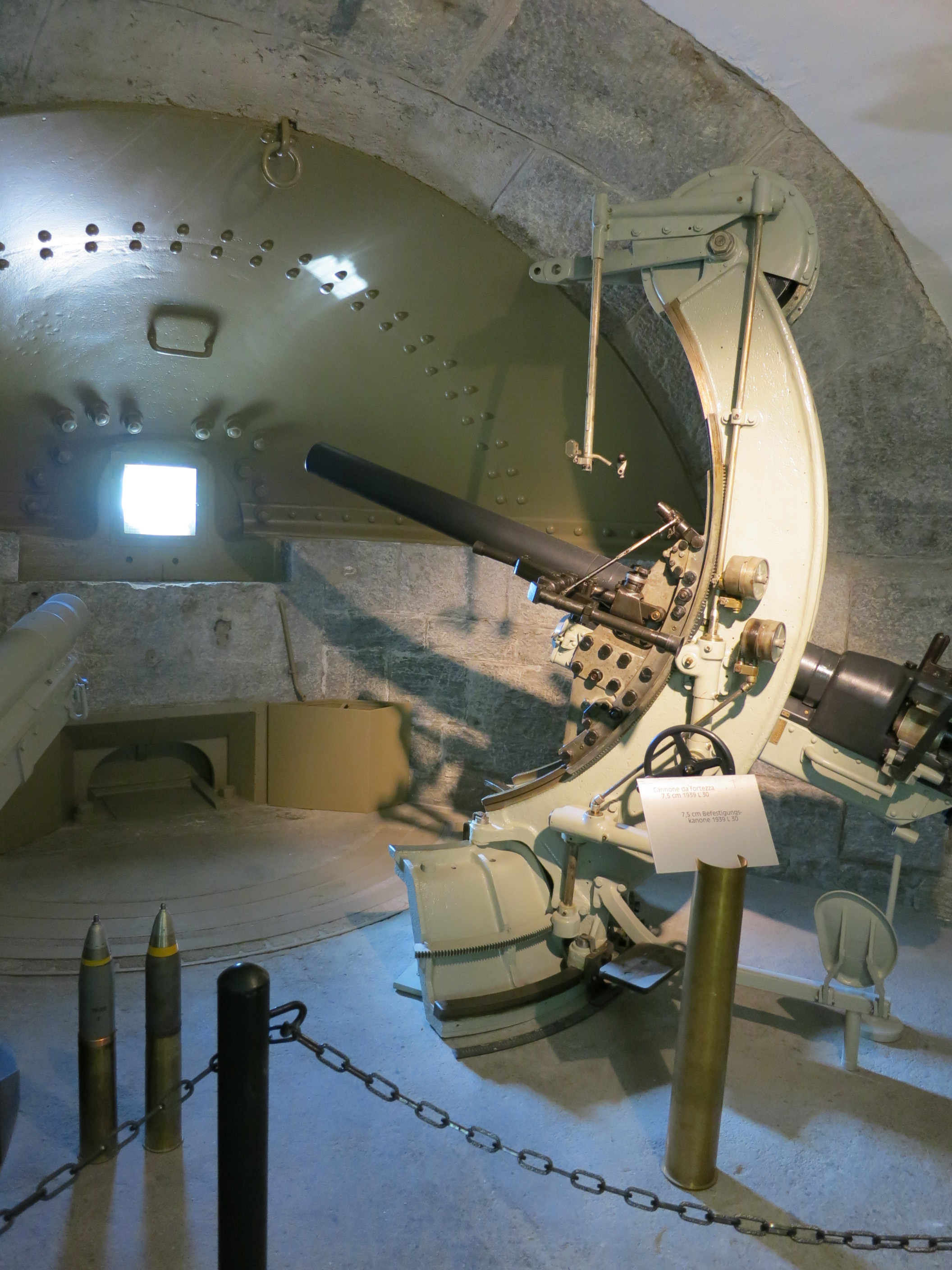 Forte Airolo, Airolo, Schweiz